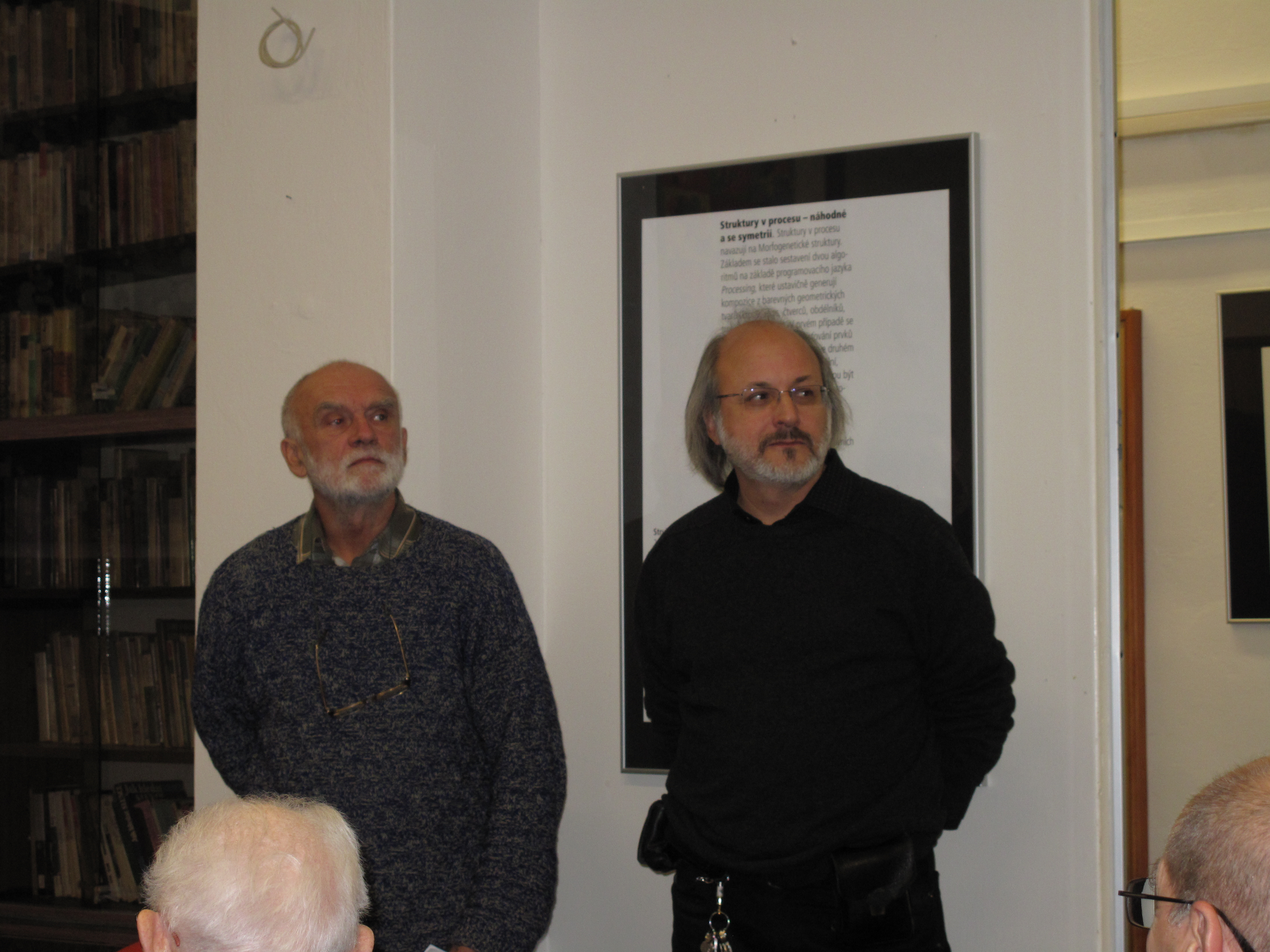 Vernissage of Proměnlivé strukury, art of Aleš Svoboda, lectures hall of the Institute of Geophysics of Czech academy of Science, Prague, Czech Republic. Personality rights warning Although this work is freely licensed or in the public domain, the person(s) shown may have rights that legally restrict certain re-uses unless those depicted consent to such uses. In these cases, a model release or other evidence of consent could protect you from infringement claims.